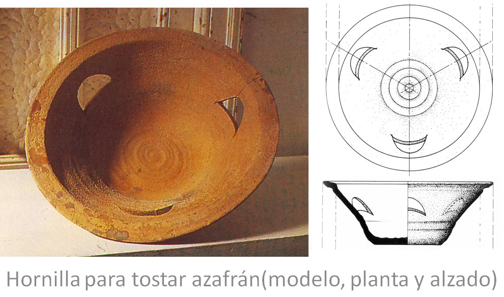 Burner for toasting the Saffron. Missing traditional pottery of Higueruela (Albacete, Spain ), 20th century. Domingo Sanz and Severiano Delgado: "Journey to the lost potteries of Albacete" (1991).